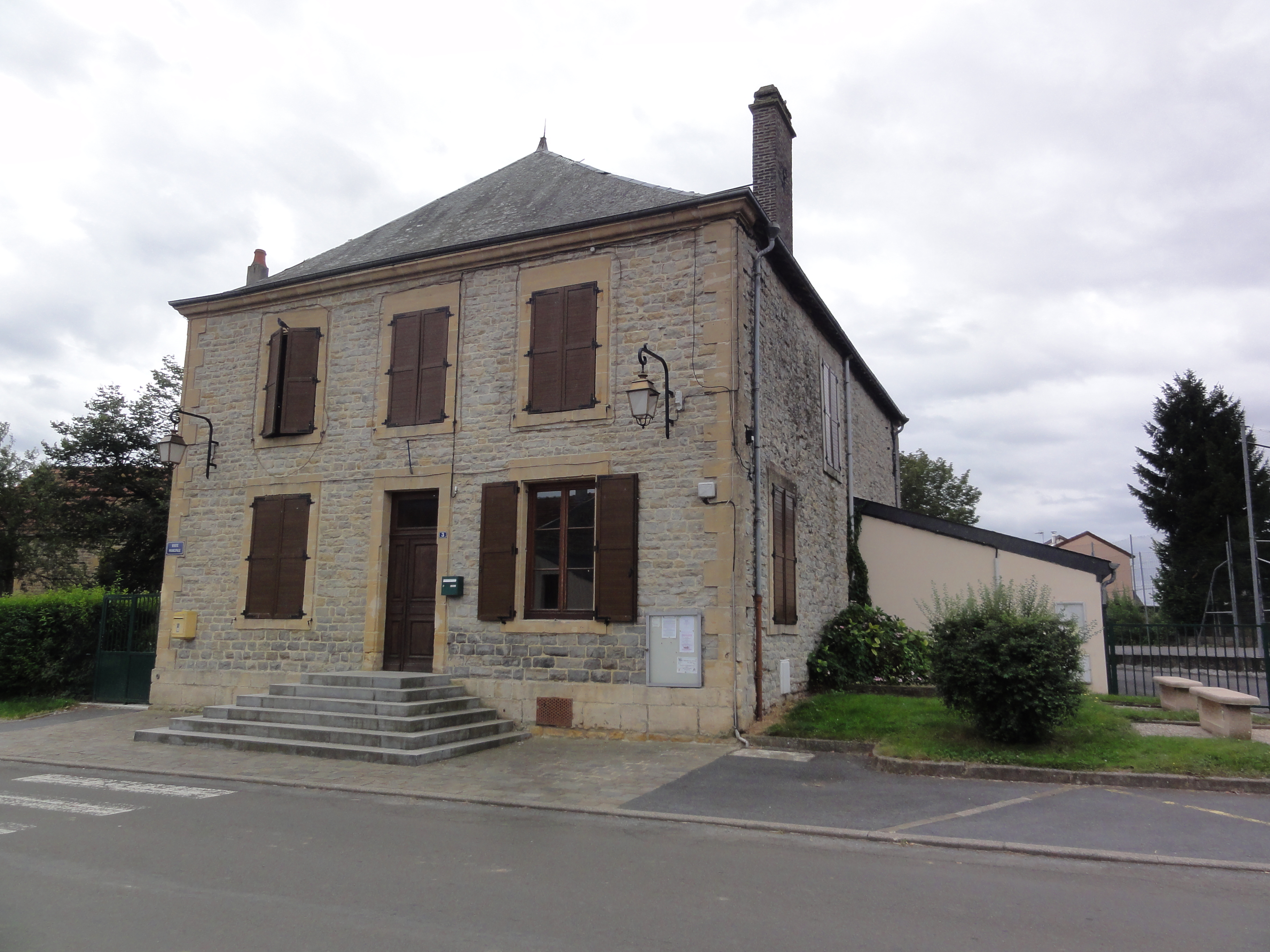 Ham-les-Moines (Ardennes) mairie